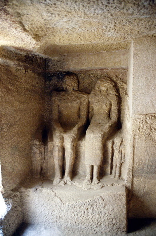 Junger tomb of Neka-Ankh, statue of the tomb owner and his wife, Fraser tombs, Egypt